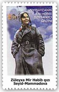 Züleyxa Seyidməmmədova on stamp of Azerbaijan.